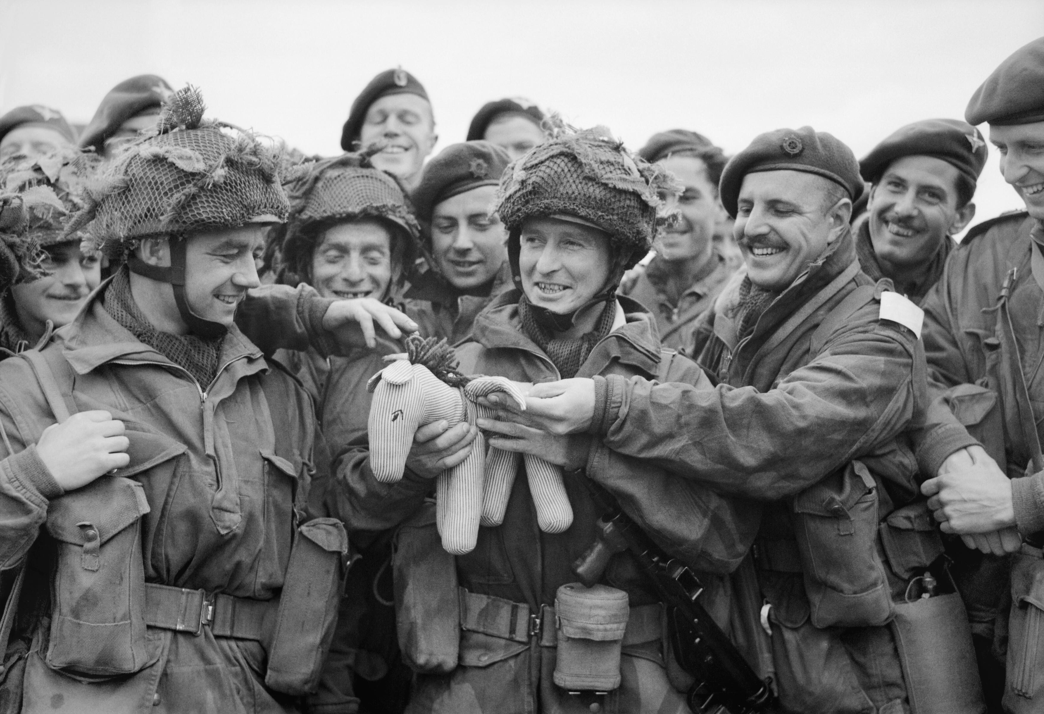 D-day 6 June 1944 Paratroops of 22 Independent Parachute Company, British 6th Airborne Division, with their toy mascot 'Pegasus' at RAF Harwell, 5 June 1944.